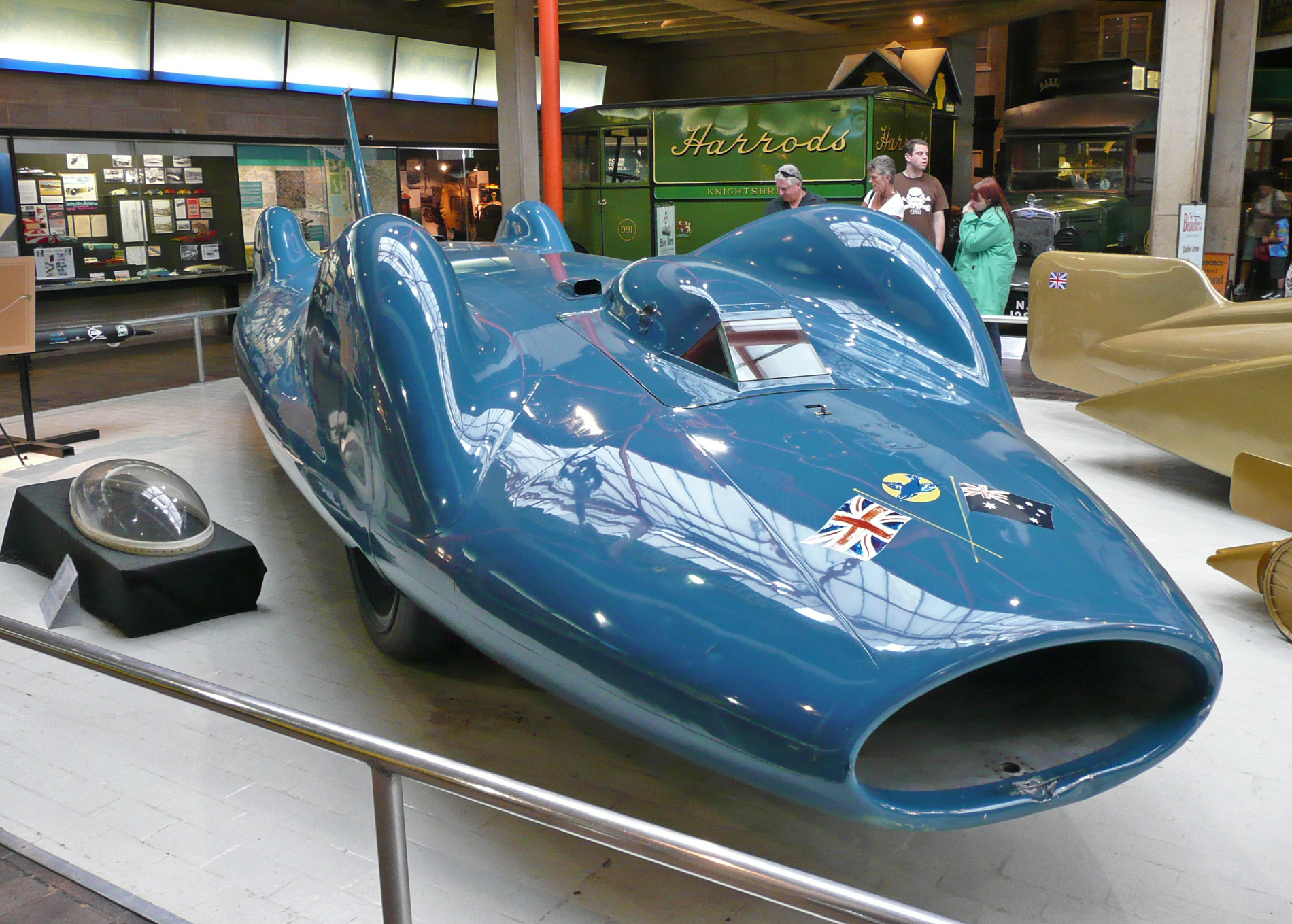 1962 Bluebird Campbell CN7, National Motor Museum in Beaulieu. This shows Bluebird in here final form, as used in Australia in 1963 and 1964 with the tall rear fin. The cockpit canopy has also been replaced by a strengthened aluminium canopy with a small flat windscreen. The original Perspex bubble canopy used in 1960 can be seen on the floor to the left.